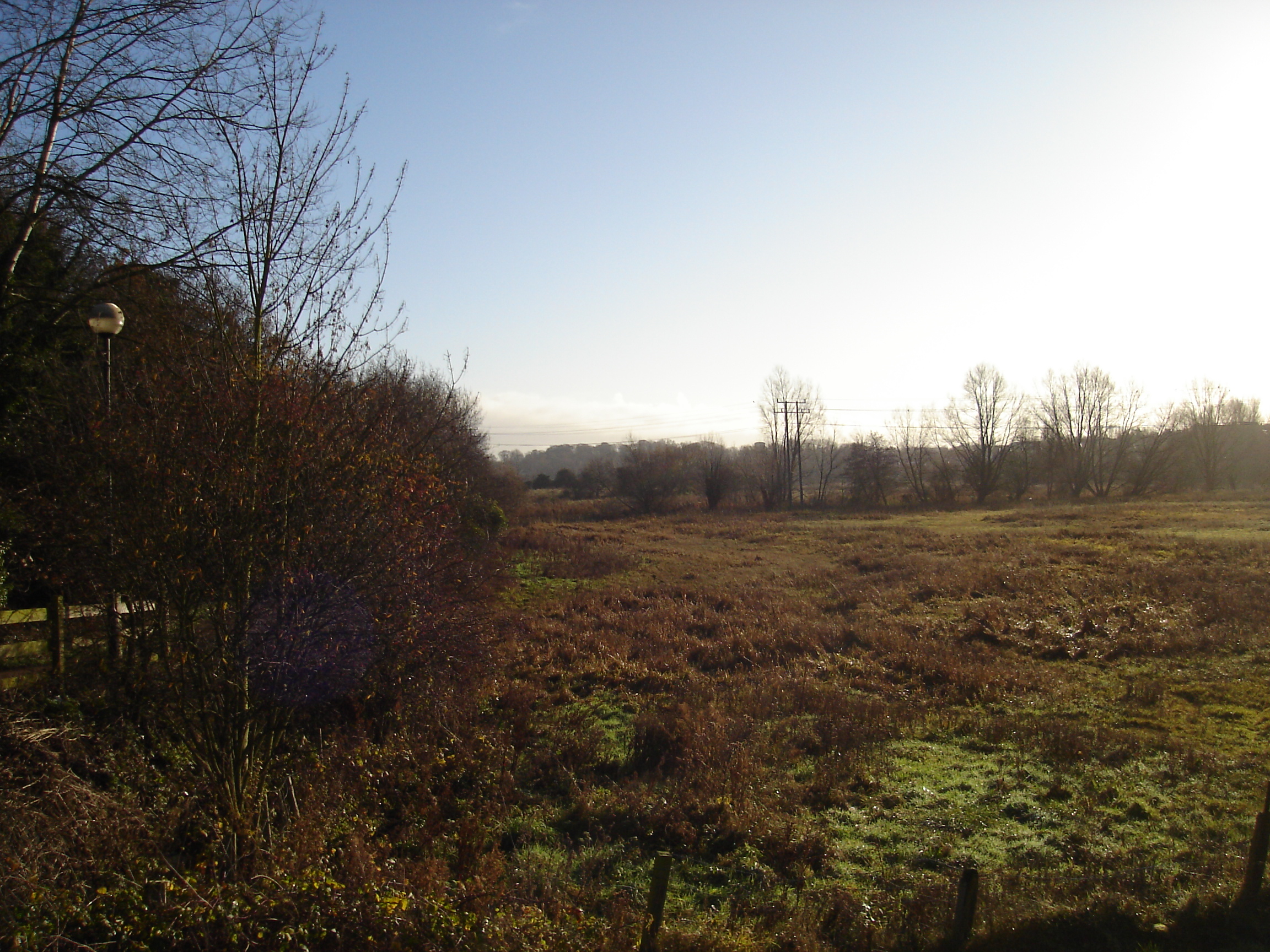 A view of Sweetbriar Road Meadows is a SSSI located in Norwich